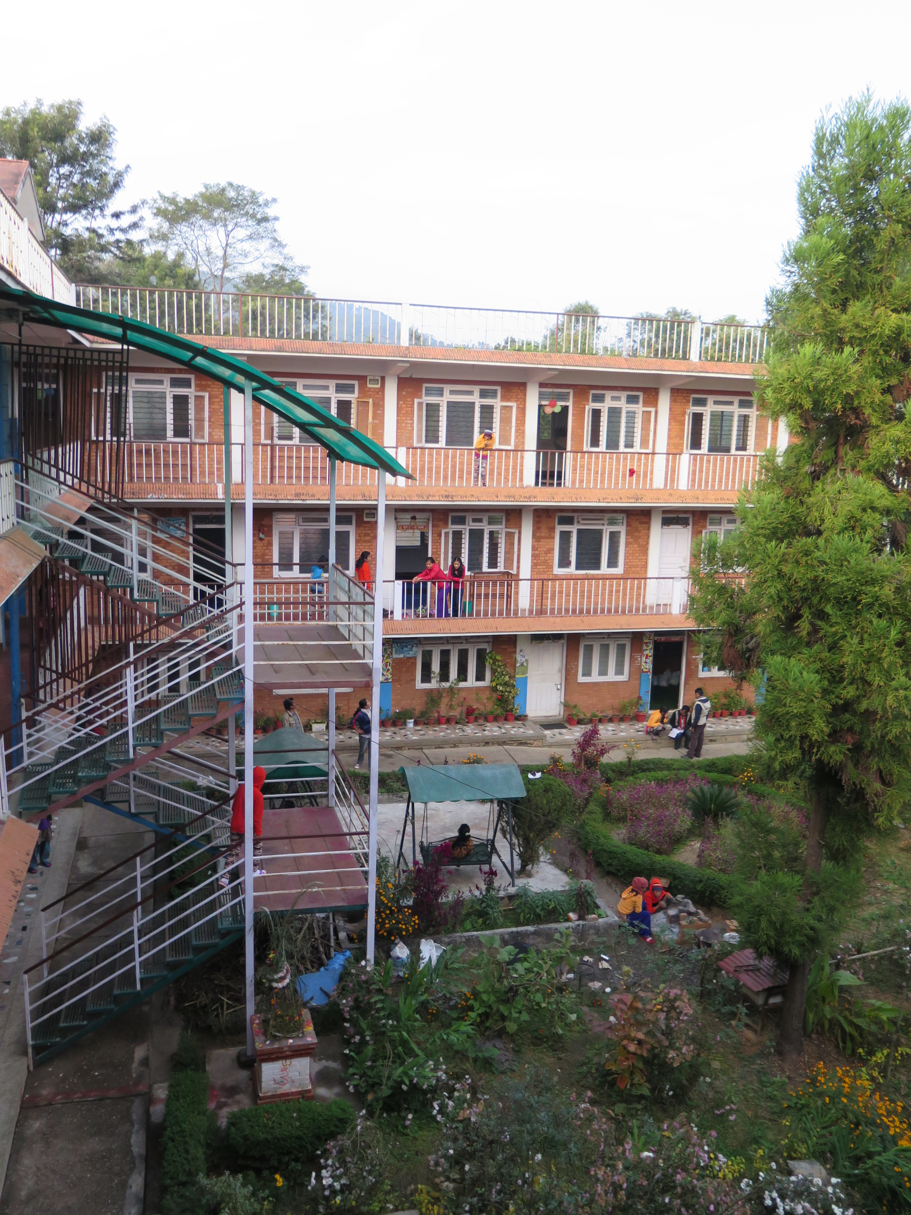 CWIN Balika Peace Home